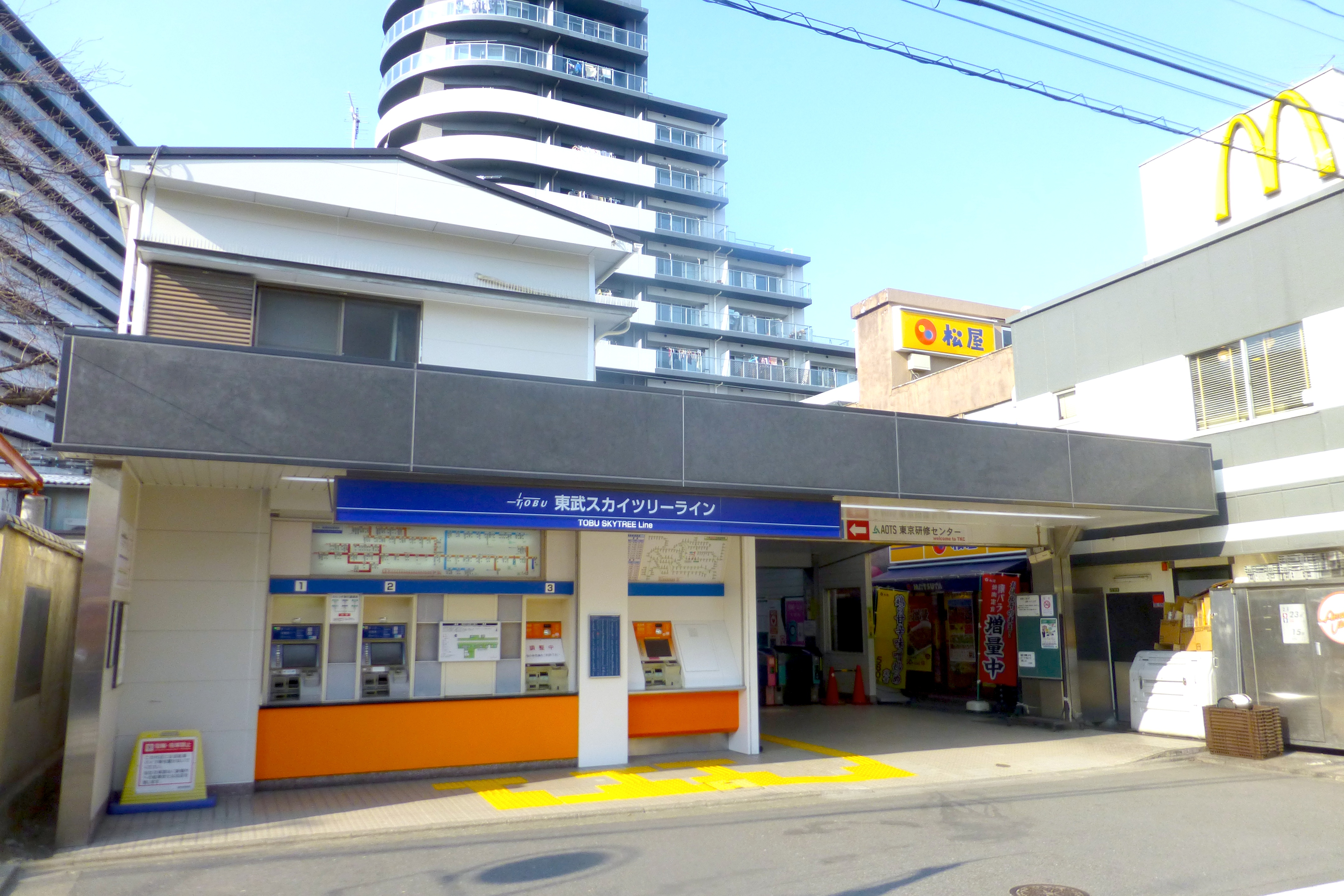 Ushida Station (牛田駅 Ushida-eki) is a railway station on the Tobu Skytree Line in Adachi, Tokyo, Japan, operated by the private railway operator Tobu Railway. This is the station exit/entrance.